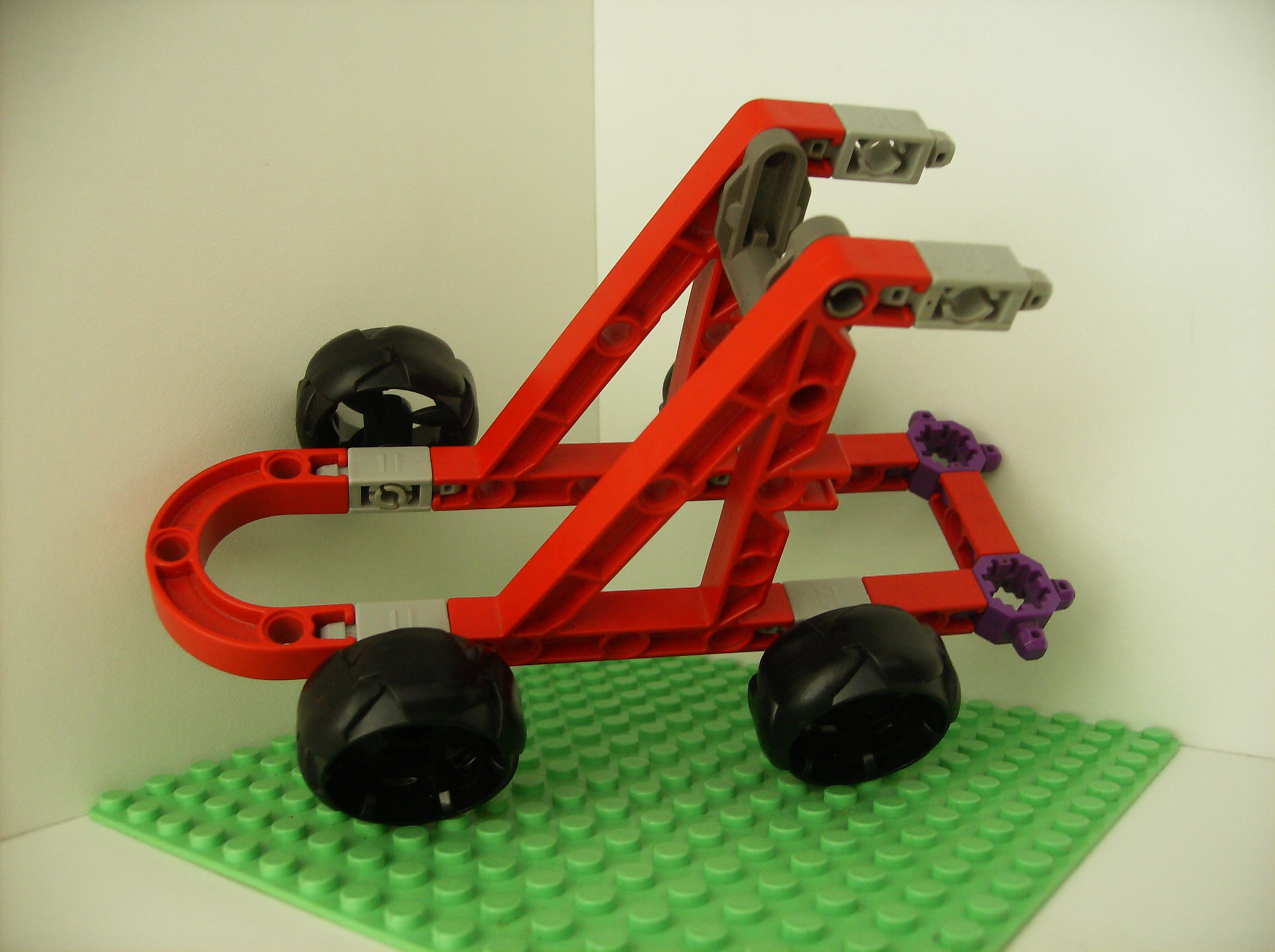 Set LEGO ZNAP 3510-1.